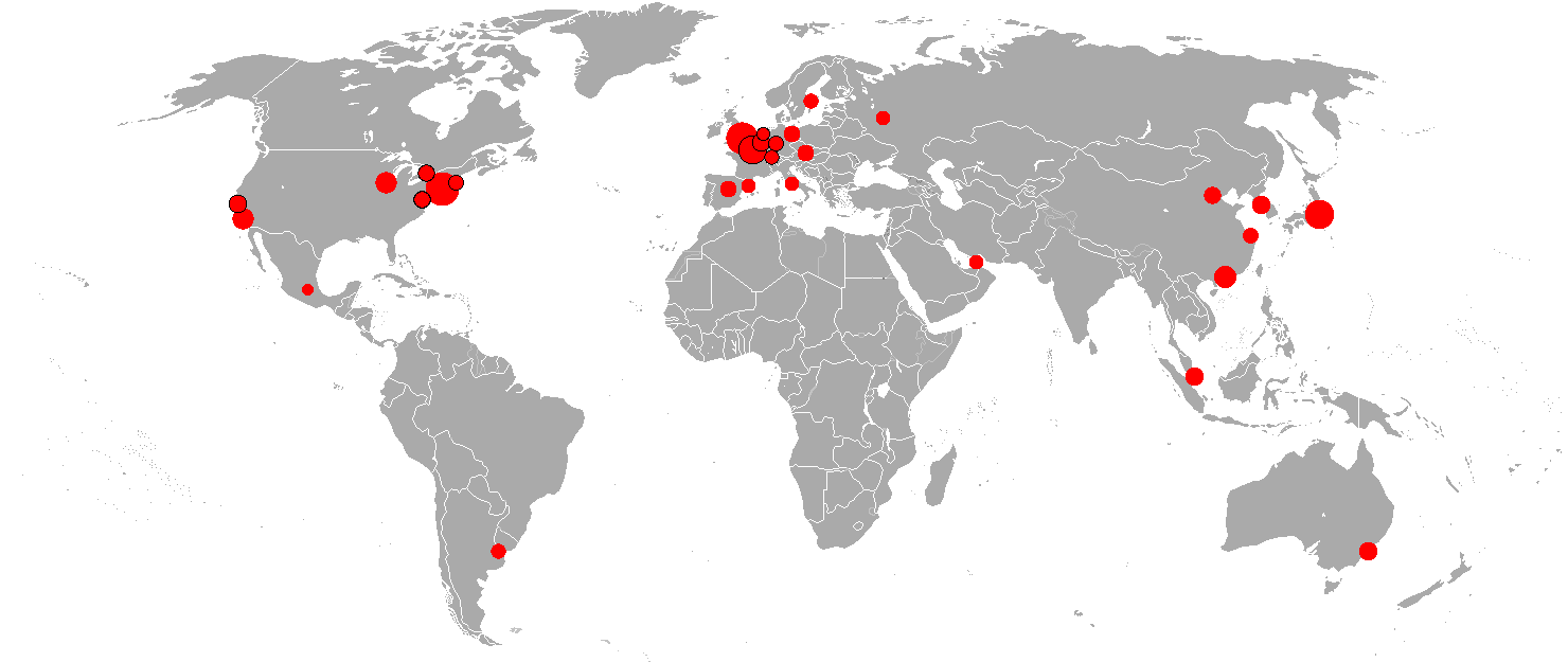 The Global Cities Index 2010